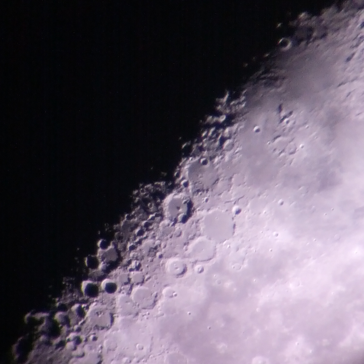 Amateur astronomer image capturing lunar craters on a waning crescent moon. (Note that this is a mirror image of the moon's actual appearance, caused by the telescope optics.)